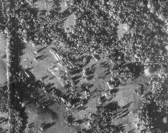 This U-2 reconnaissance photo showed concrete evidence of missile assembly in Cuba. Shown here are missile transporters and missile-ready tents where fueling and maintenance took place.